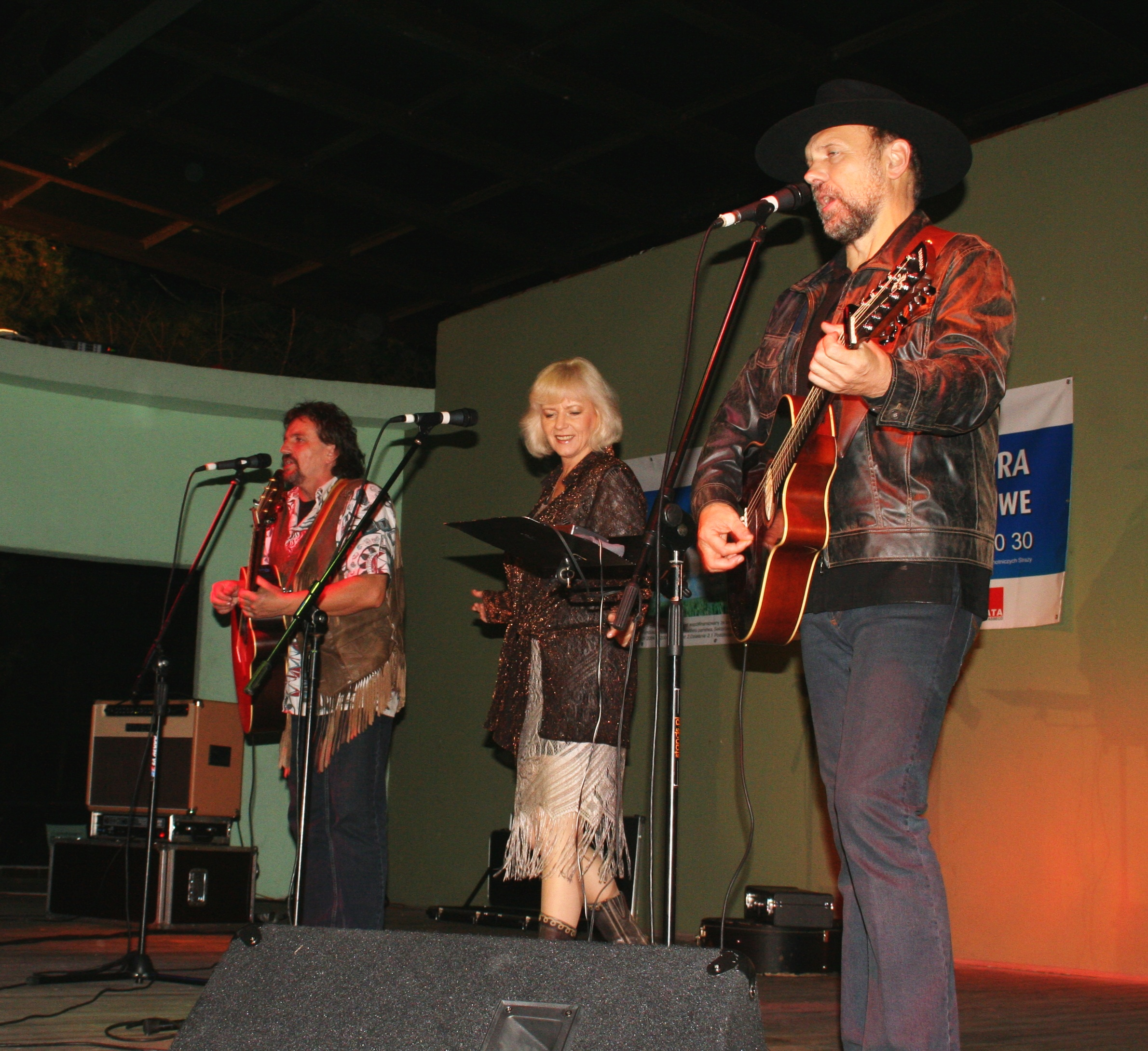 Polish band Gang Marcela in Boronów